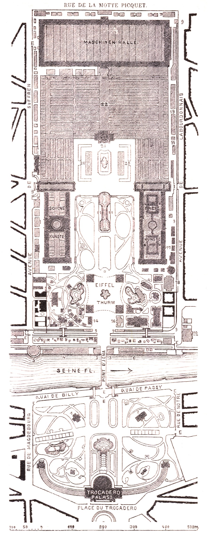 Paris - Exposition Universal 1889, situation plan